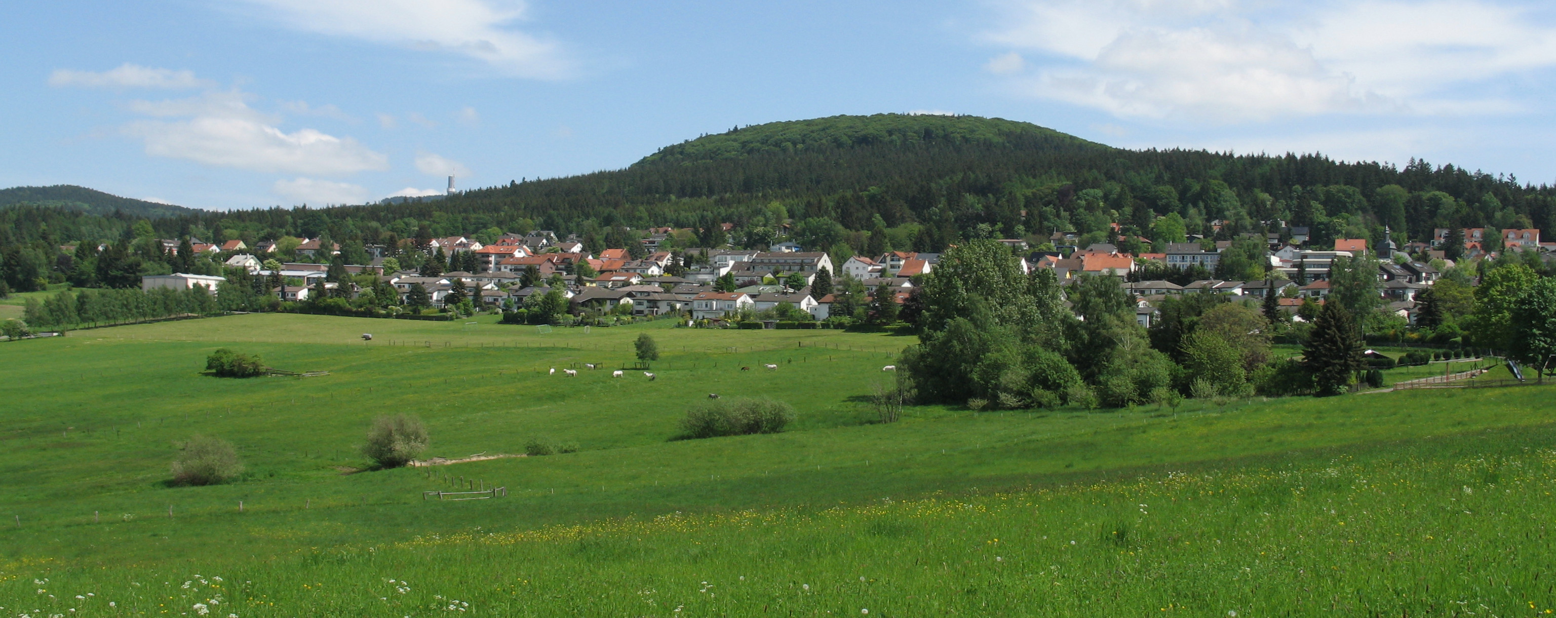 View of the village Glashütten, Taunus, Germany.